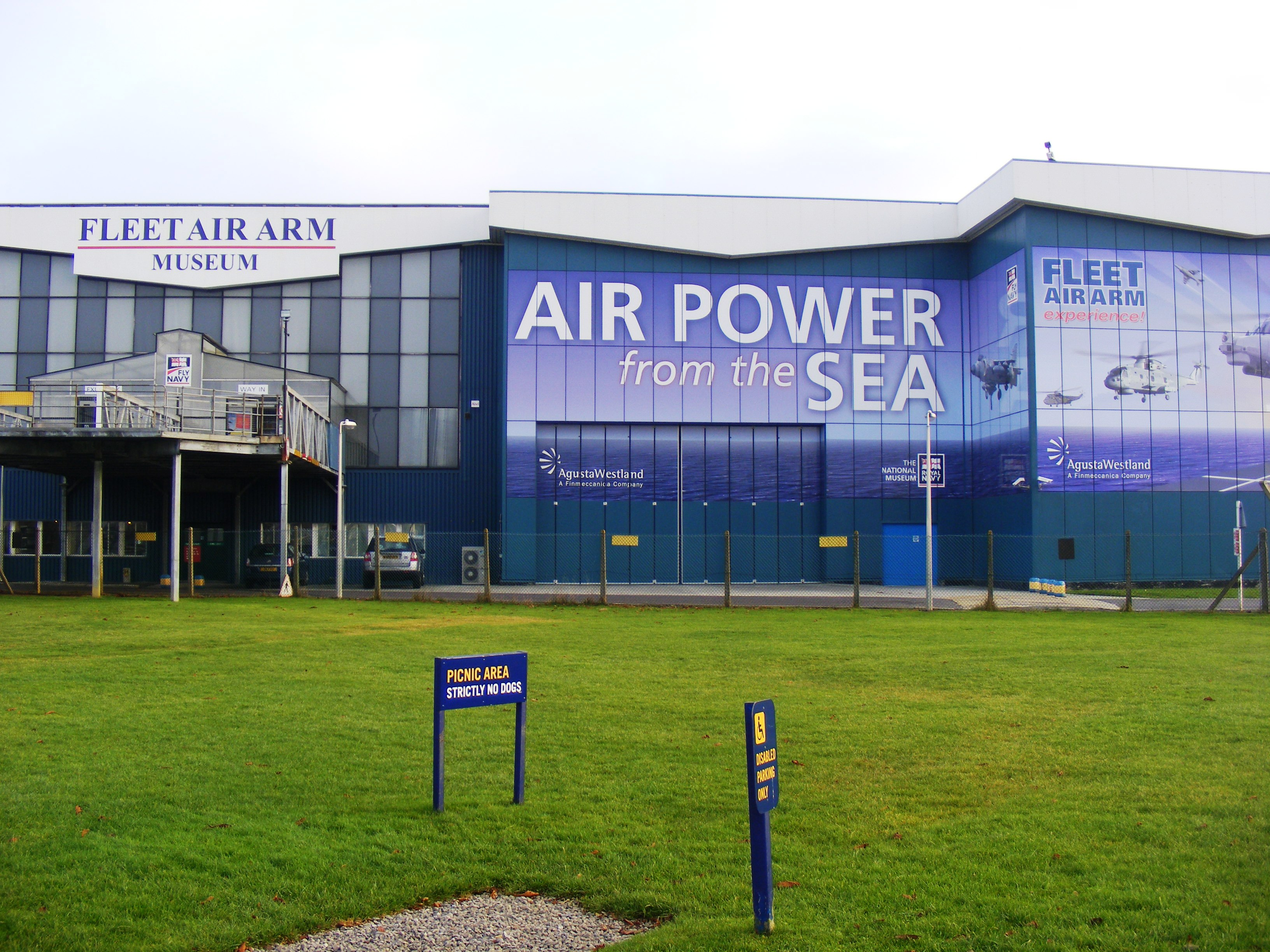 The exterior of the Fleet Air Arm Museum at Yeovilton, Somerset